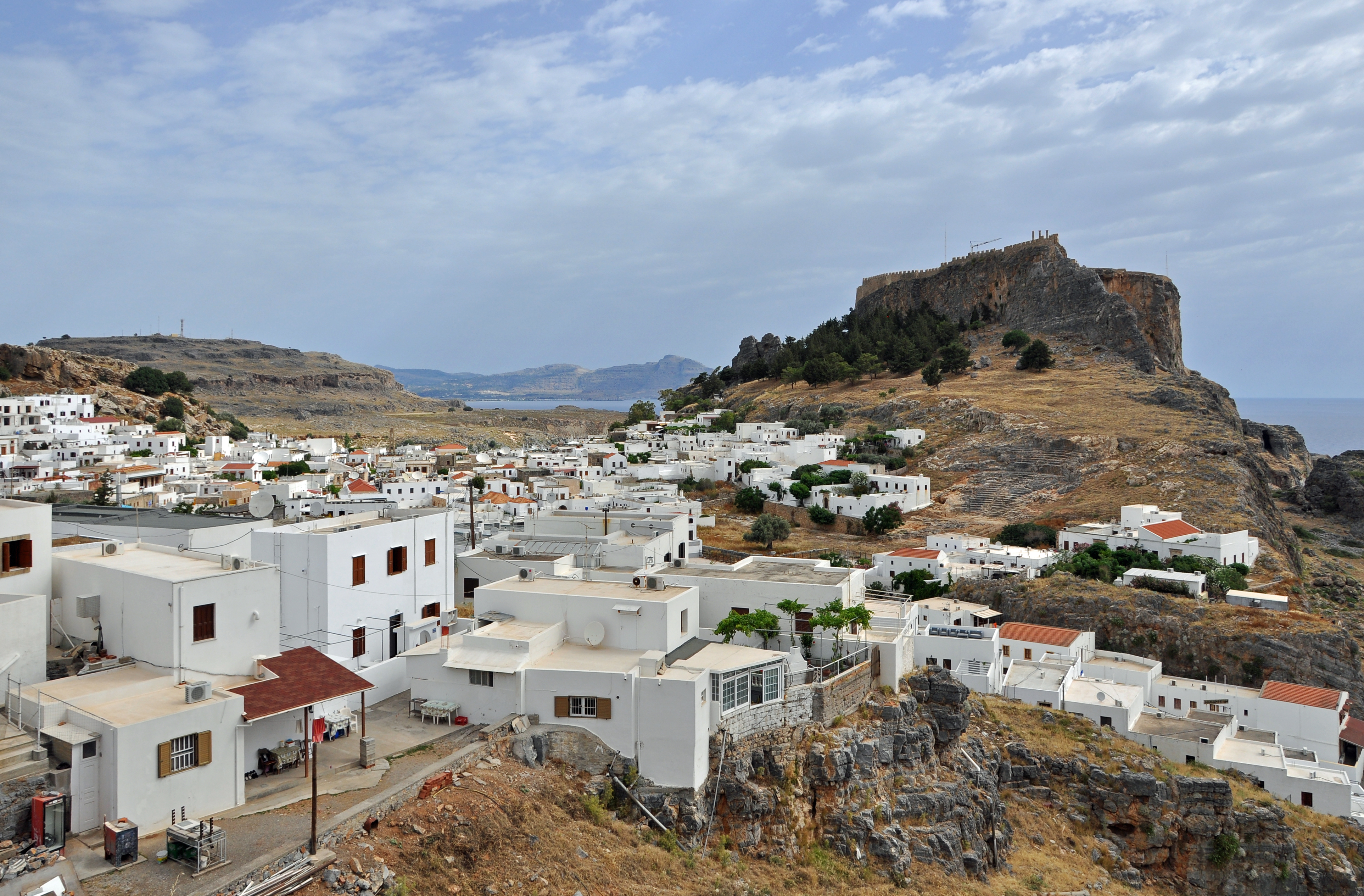 Lindos (Rhodes, Greece): the village and the acropolis